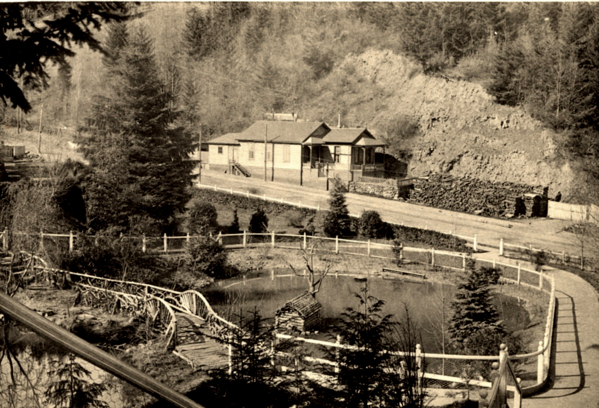 Washington Park in Portland, Oregon